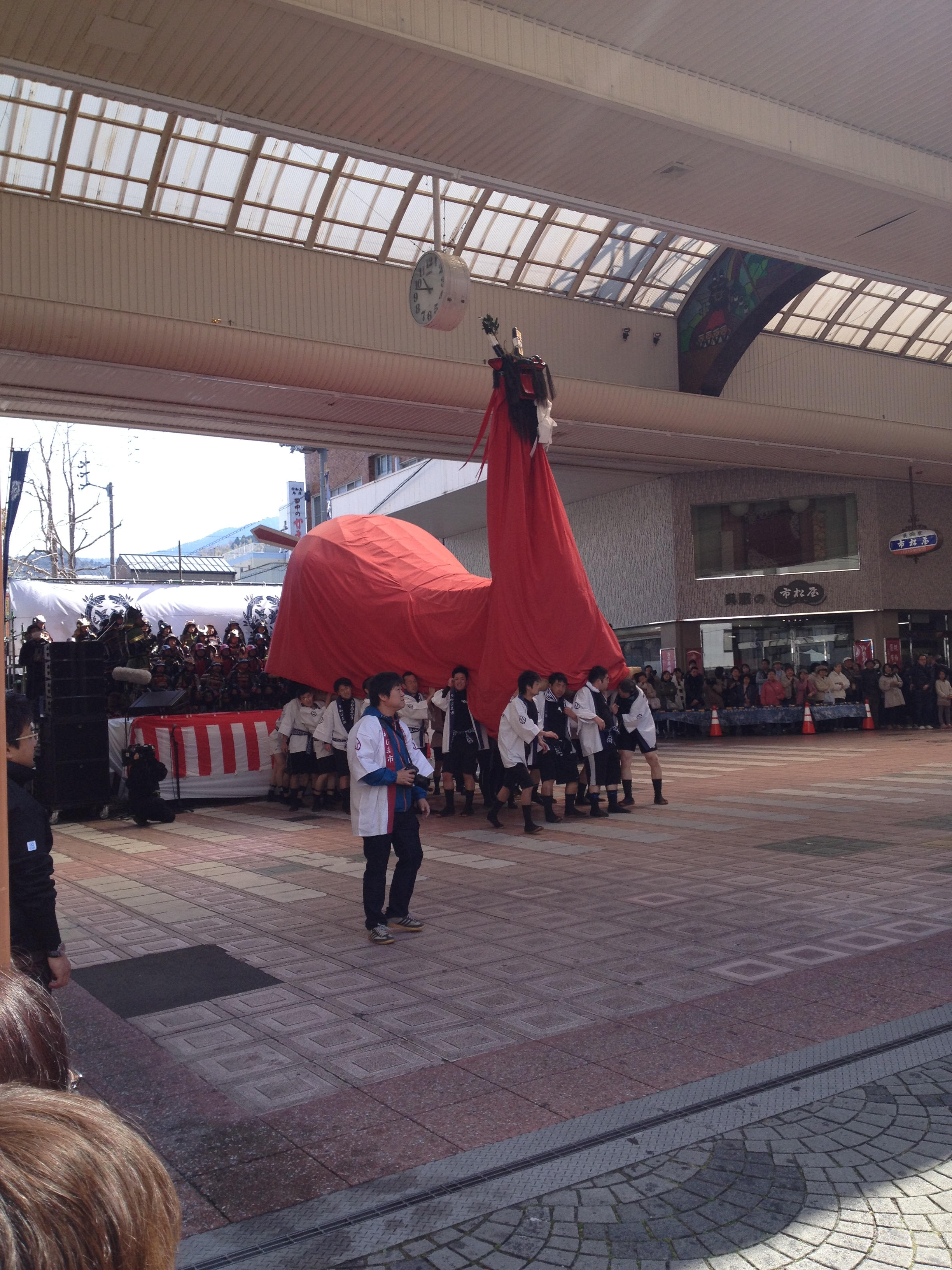 Samourai festival in Uwajima